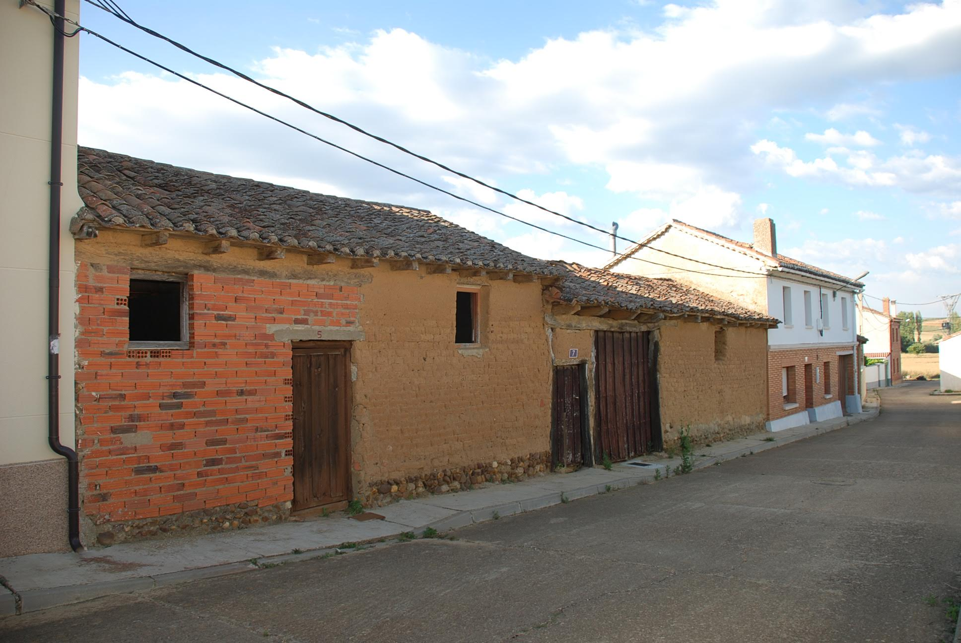 Sol street view in Villamelendro de Valdavia (Palencia, Castile and León).